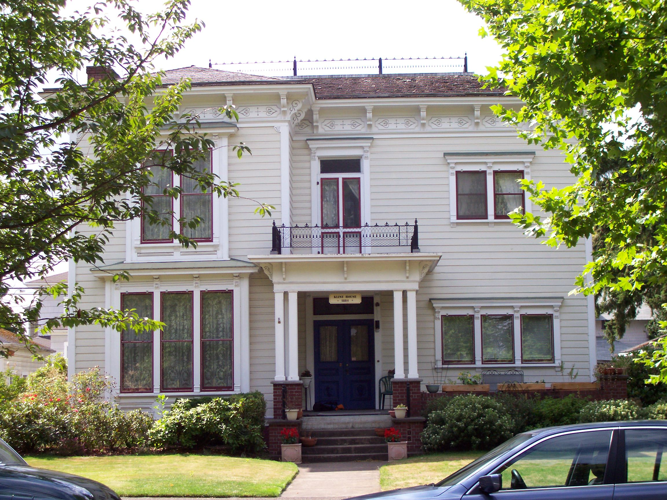 Lewis G. Kline House in Corvallis, Oregon. Listed in the National Register of Historic Places